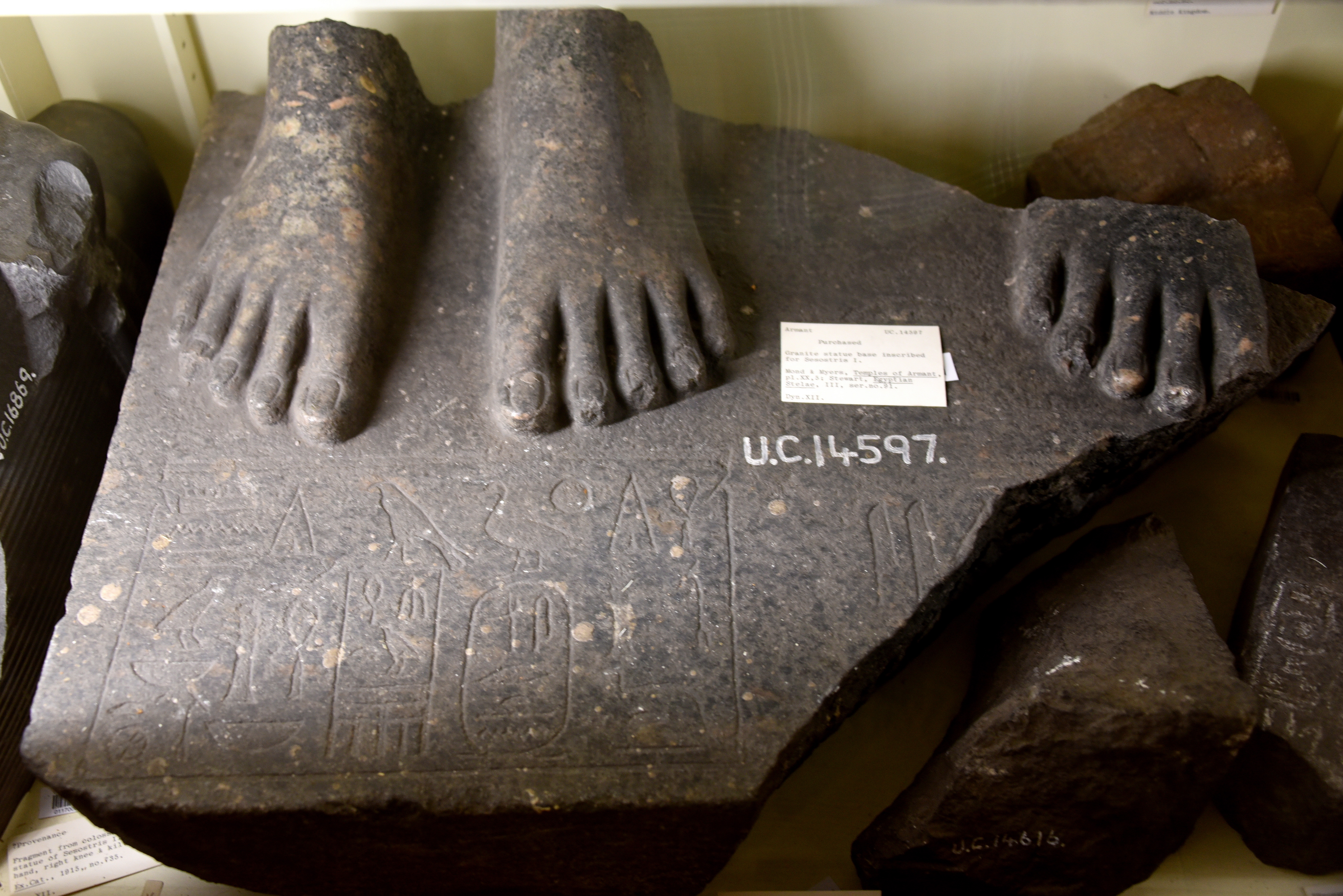 Base of a granite statue inscribed with the name of Senusret (Sesostris) I. Two feet of a female figure, at the right side of the right foot of the king. From Armant, Egypt. The Petrie Museum of Egyptian Archaeology, London. With thanks to the Petrie Museum of Egyptian Archaeology, UCL.